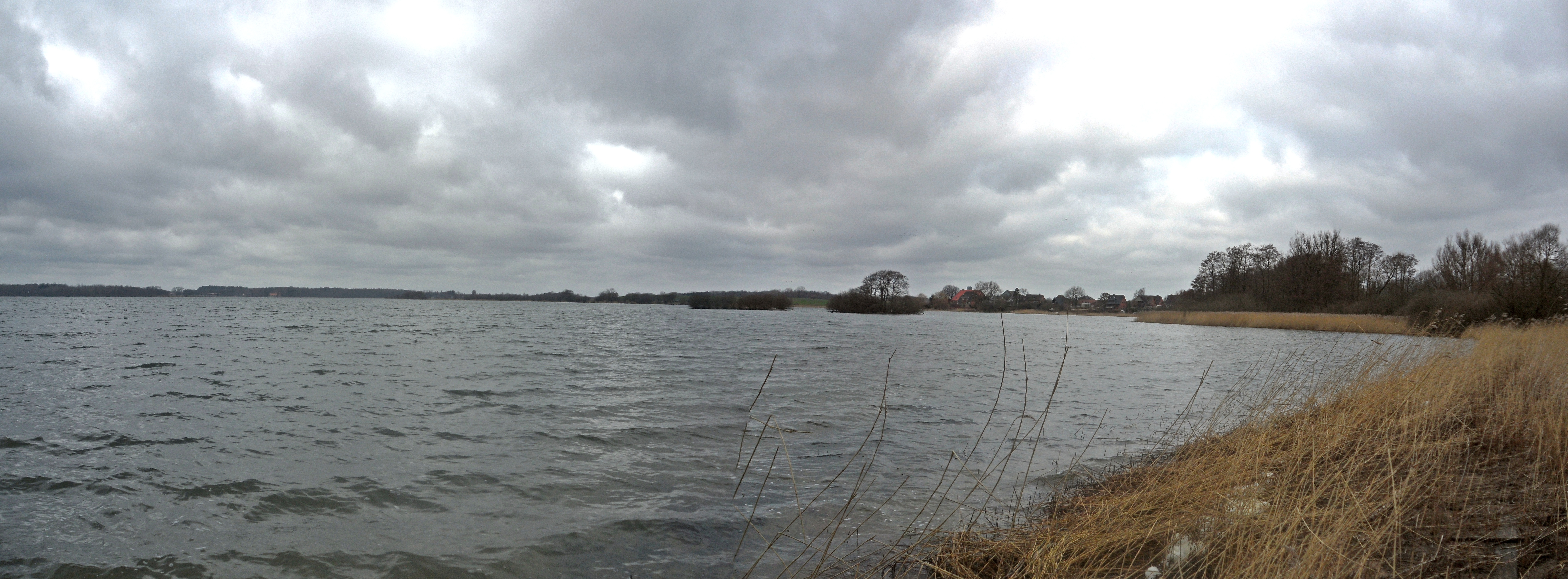 Panorama of the Dobersdorfer See from Schlesen